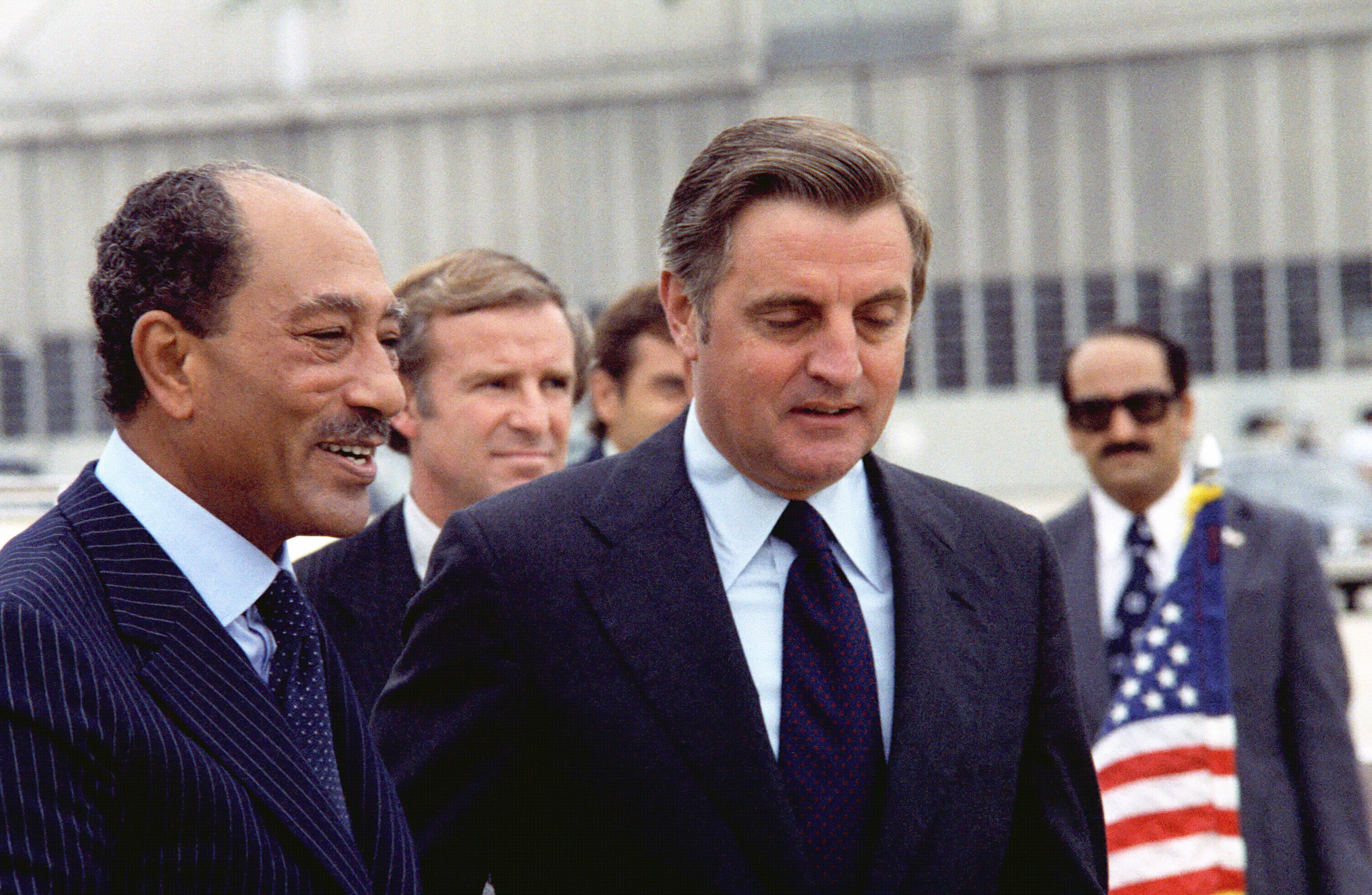 Vice President Walter Mondale (right) bids farewell to Egyptian President Anwar el-Sadat (left) prior to his departure from a state visit to the US.